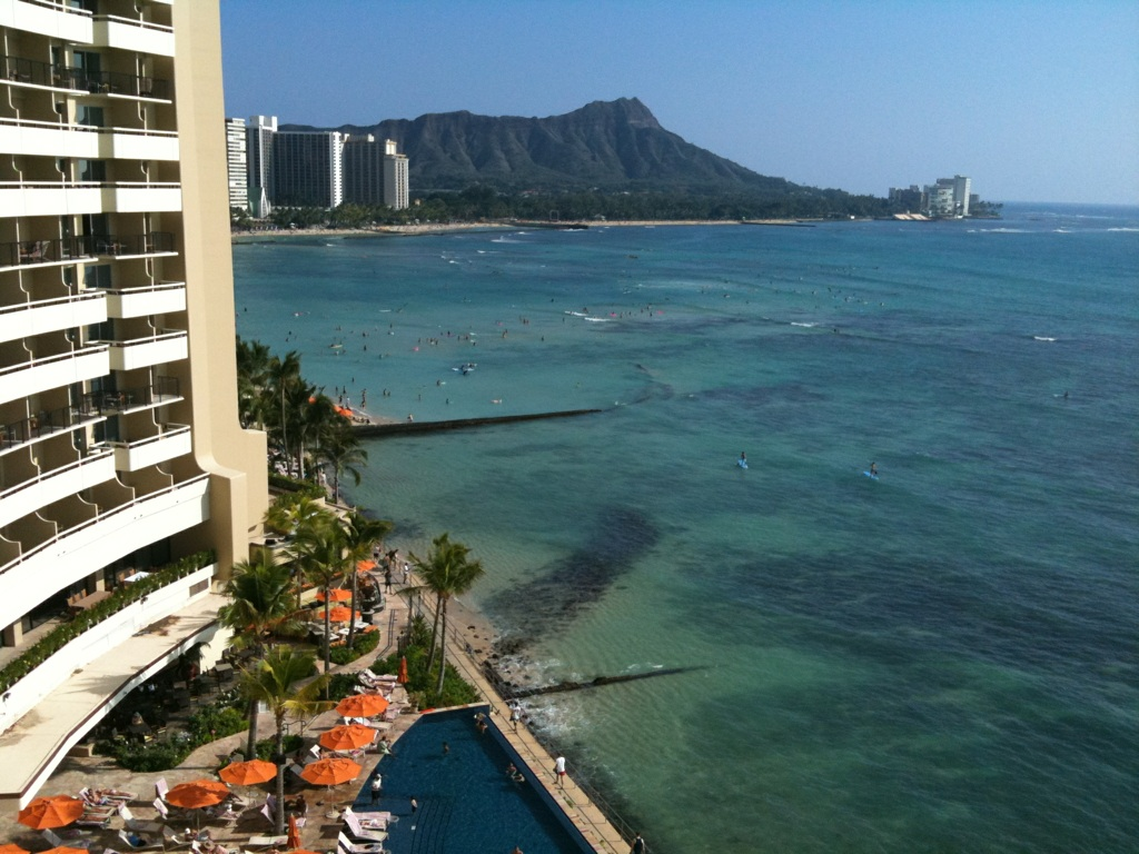 Diamond Head view from Sheraton Waikiki